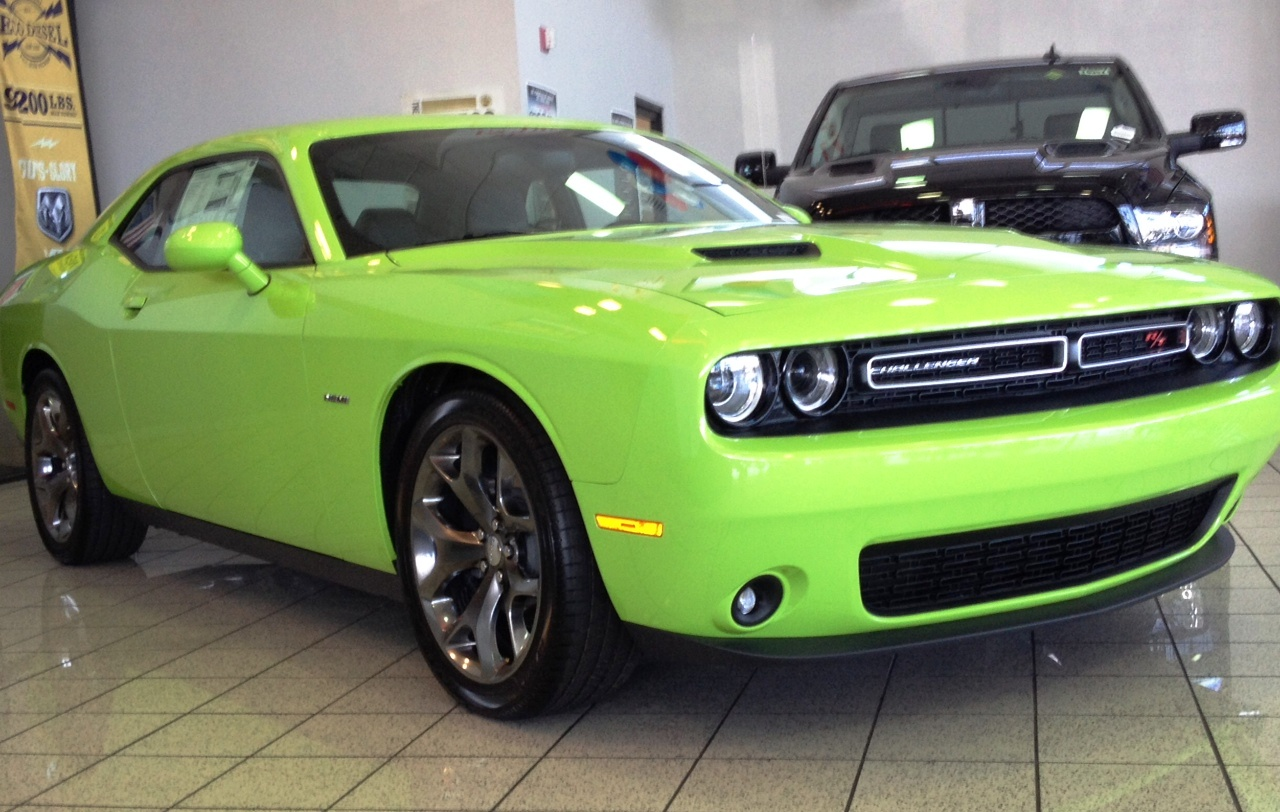 Sublime Green Challenger